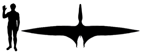 Size of Istiodactylus latidens compared to a human. Based on size estimates (4.3 to 5 metres) in:[1], and Wellnhofer 1991